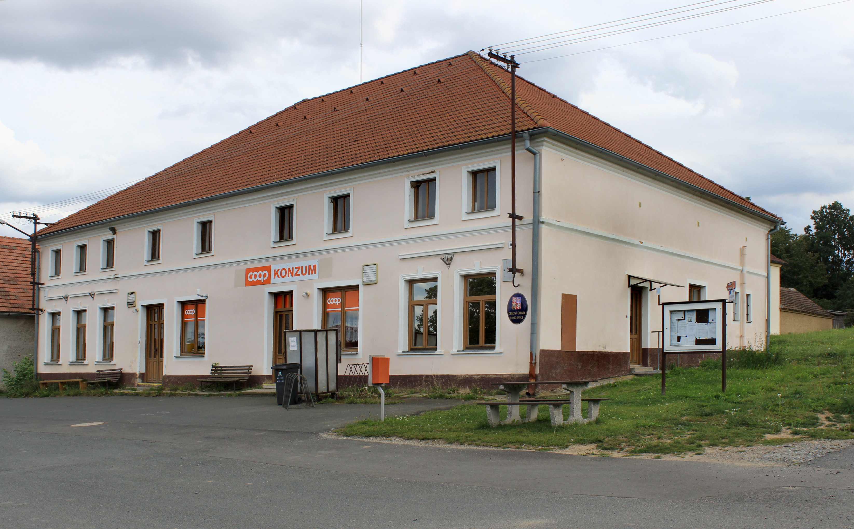 Municipal office and general store in Honezovice, Czech Republic.